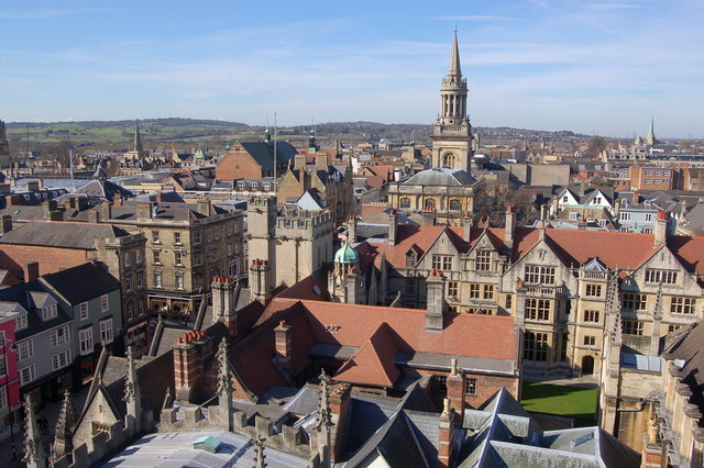 Lincoln College Library tower and Brasenose College from the University Church of St Mary the Virgin View in spring sunshine looking west from the tower of the St Mary's church. Shops in the old High Street are visible on the left with Brasenose College in the foreground immediately behind the leaded church roof. The tower of Lincoln College Library dominates the skyline with the spires of St Aldates church on the left and Nuffield College on the right.